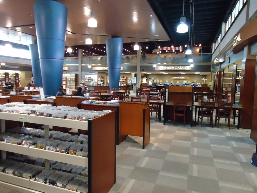 Inside the Monmouth County Library, eastern branch, in Shrewsbury, New Jersey.